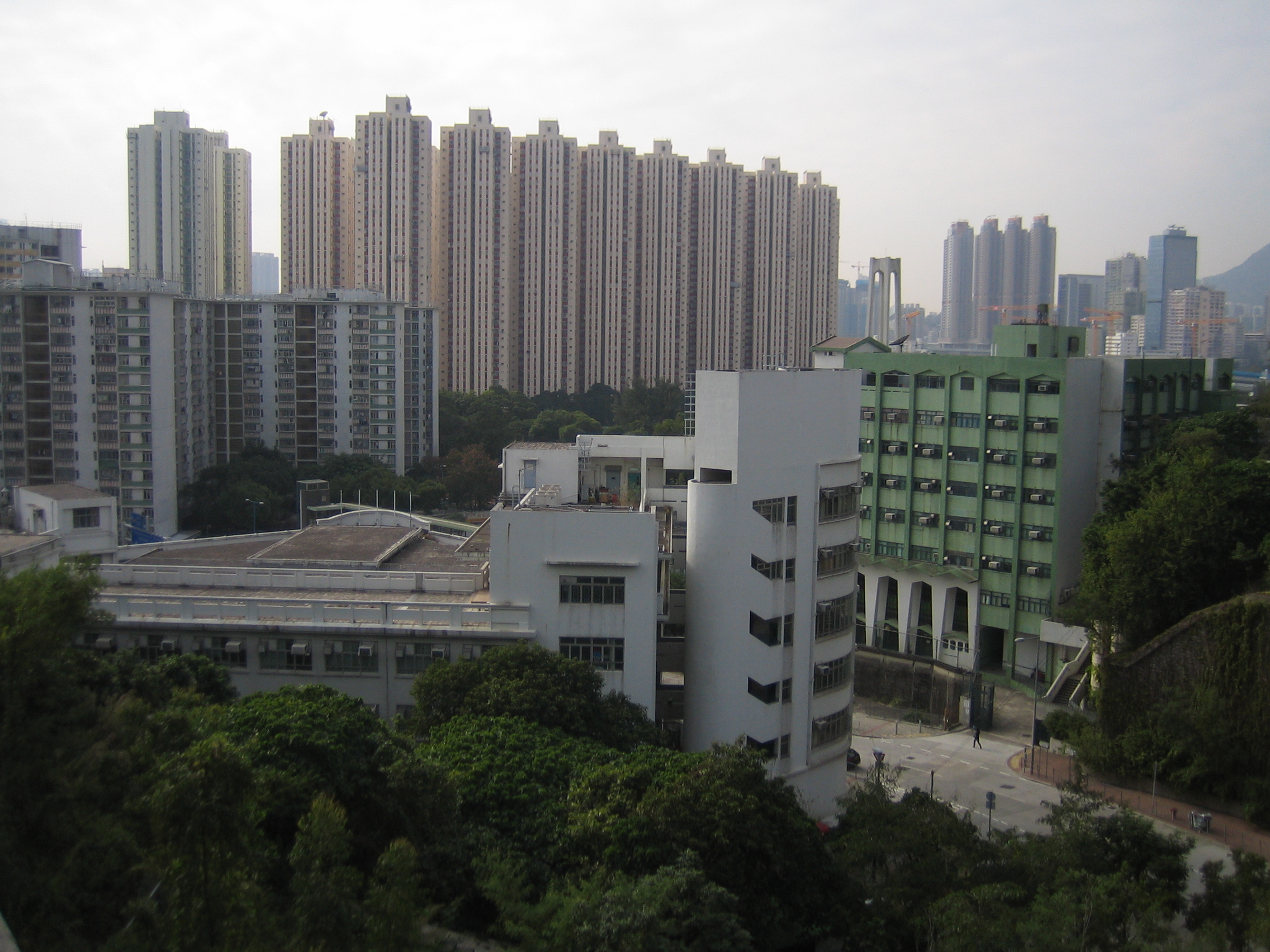 This is the photo of St. Joseph's Anglo-Chinese School（Primary & Secondary、聖若瑟英文中小學、聖若瑟英文學校）before the second relocation of the secondary section. It is taken from Choi Wing Road, Hong Kong. If you have any questions about the licensing (like cc-by-sa, GFDL), or you want to republish the image without using the licensing shown as below, you are welcome to leave a message on the User Talk Page of my Chinese Wikipedia account. 中文（香港）: 這是在中學部第二次遷校前最後一張聖若瑟英文中小學（聖若瑟英文學校）的合照，拍攝地點是香港九龍彩榮路。如你對這照片版權許可協議 (例cc-by-sa, GFDL) 有疑問，或你想把照片不用以下的版權協議轉載，歡迎你到我在中文維基百科的用戶對話頁留言。